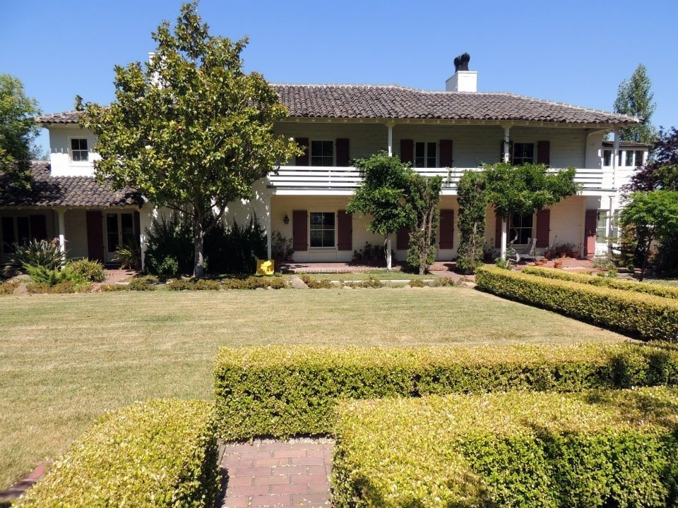 Here in Danville, California is where playwright Eugene O'Neill lived with his wife and beloved dog. Every little morsel of the house was designed by his wife. Symbolism runs deep in this house full of superstitions, making the timing of our visit that much more significant...our visit on Friday the 13th.